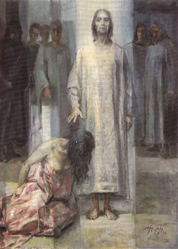 The painting "La Benedizione", seems to be inspired by the passage in John VIII 3-11. Willie Apap puts emphasis on the essential spirituality of the encounter between Christ, singled by a straight beam of white light, and the sinner at his feet, to the moment when the adultress is bidden "Go away in peace and sin no more".